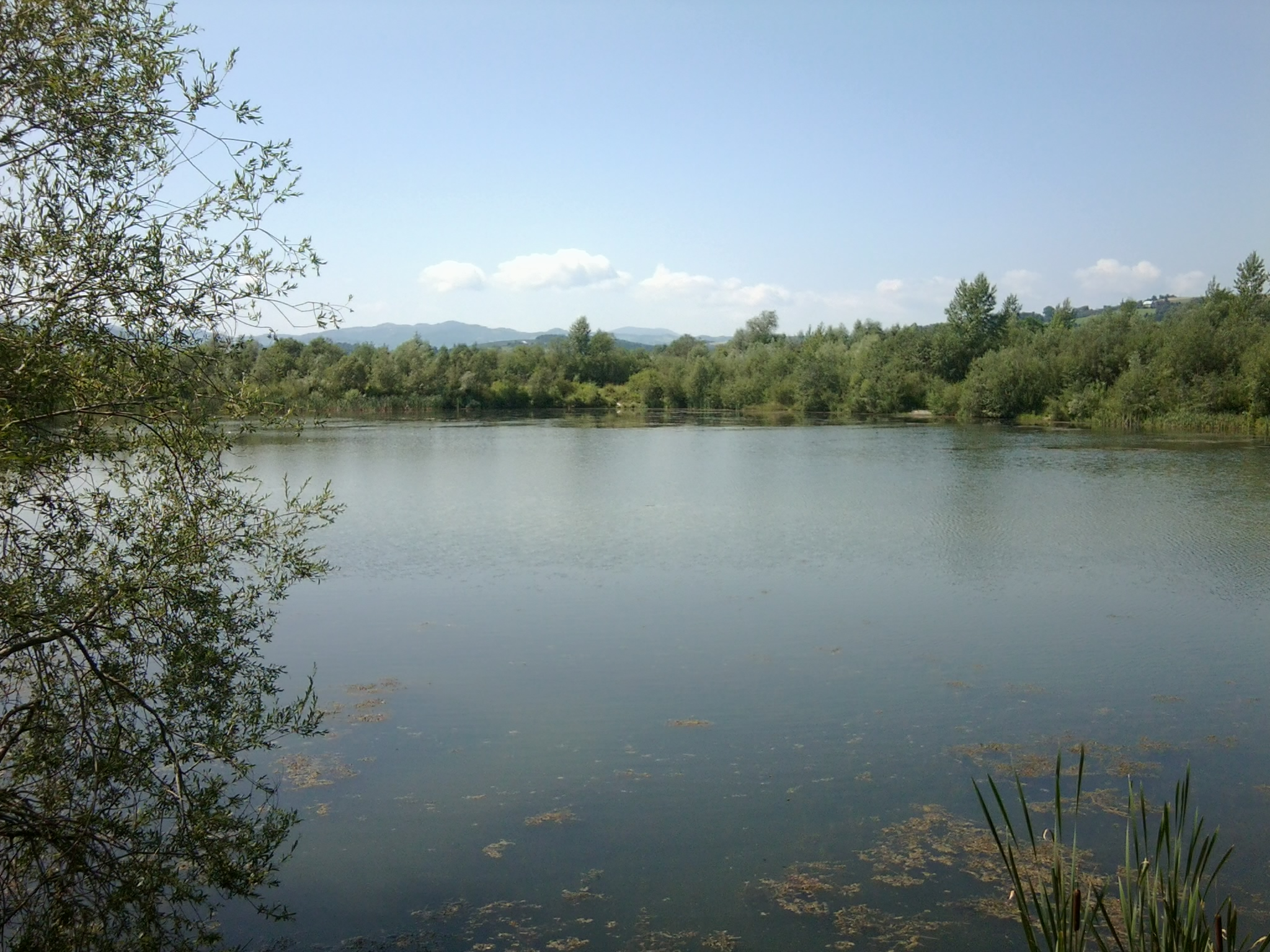 Pond in Podegrodzie